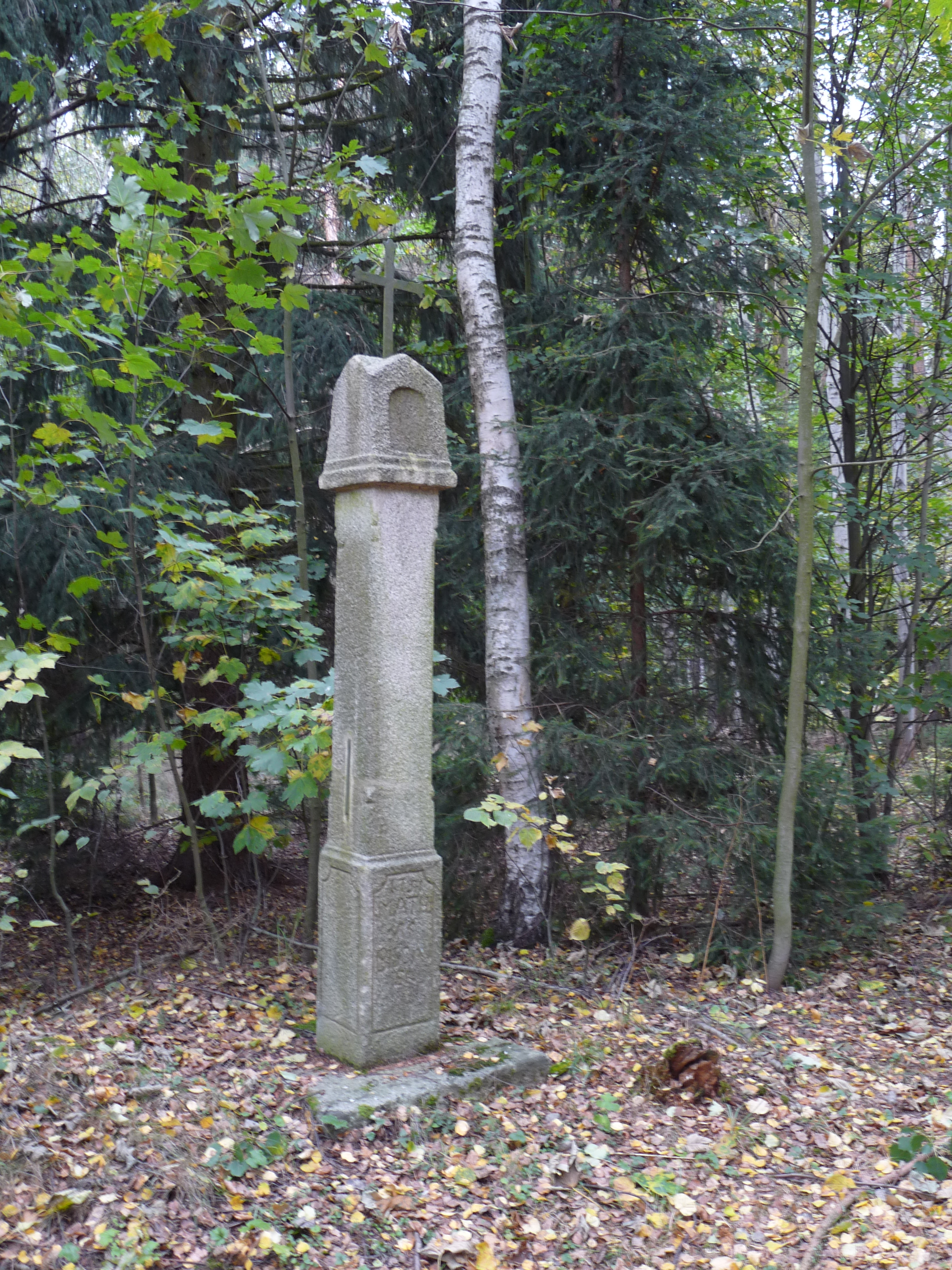 Column shrine in the village of Hosov (part of the town of Jihlava) in Jihlava District, Vysočina Region, Czech Republic.